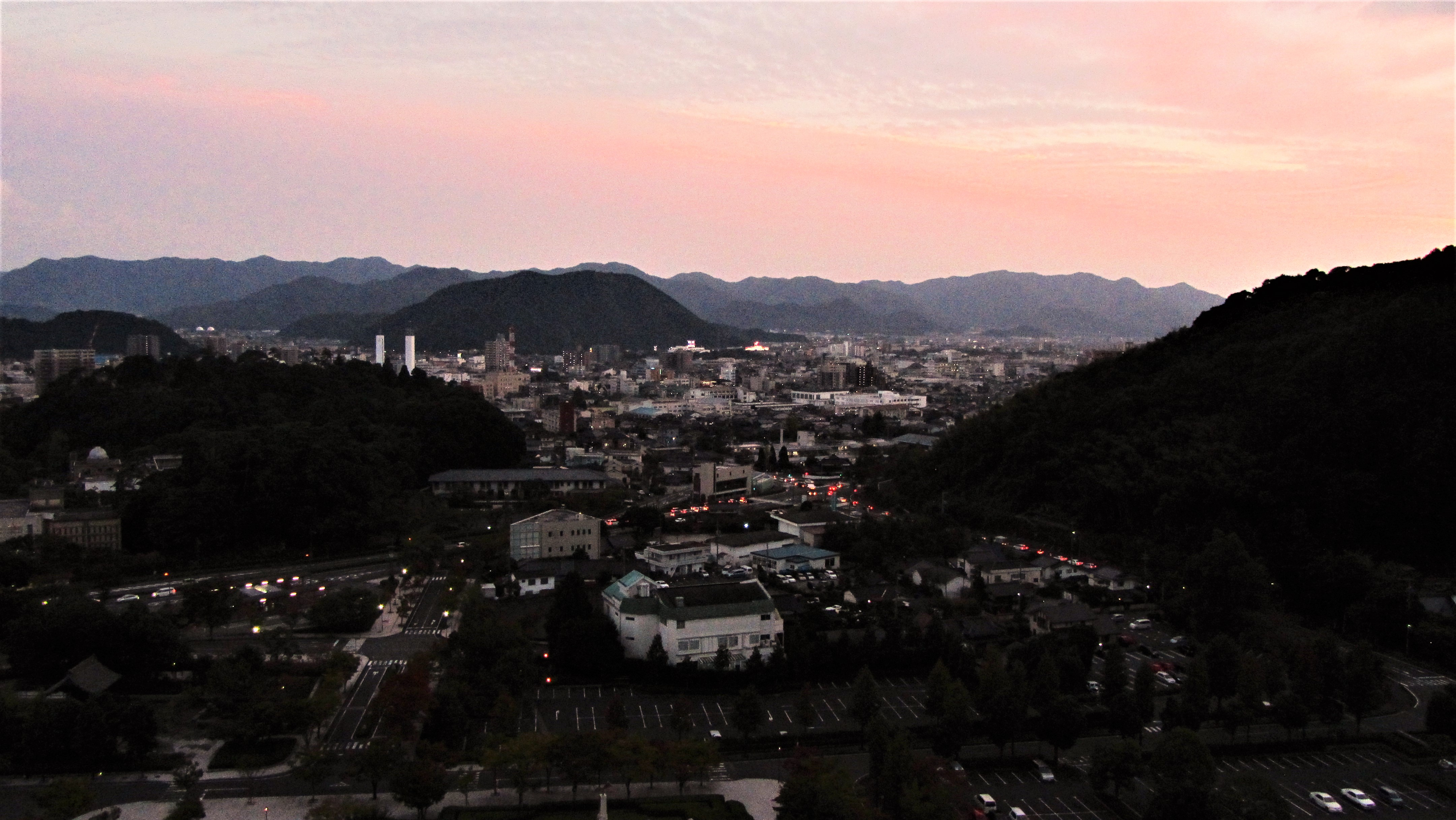 Panoramic view of central Yamaguchi in the evening light taken from the Yamaguchi Prefecture Government Building.